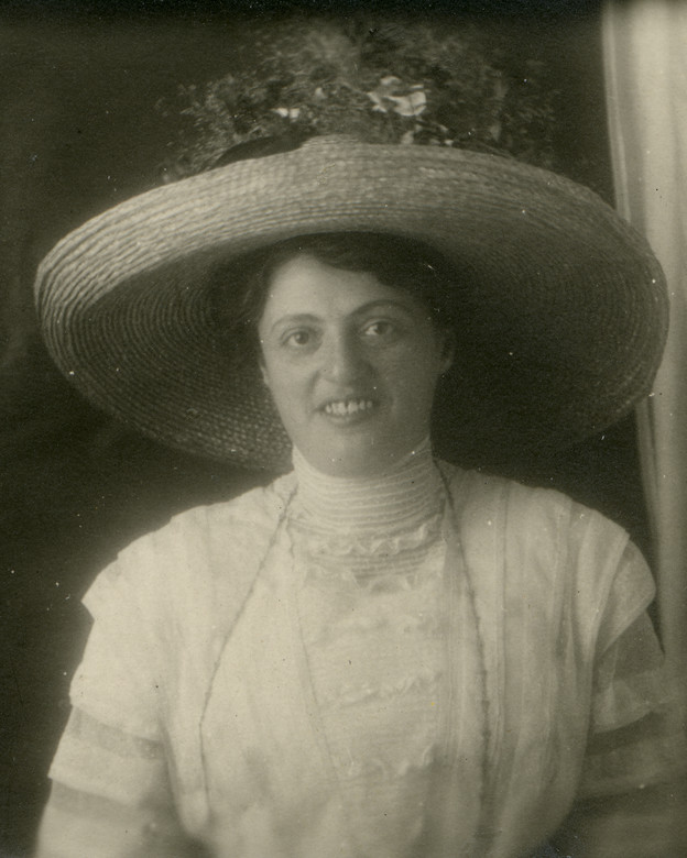 Photograph of the Swiss political activist Rosa Bloch Bollag (1880-1922)